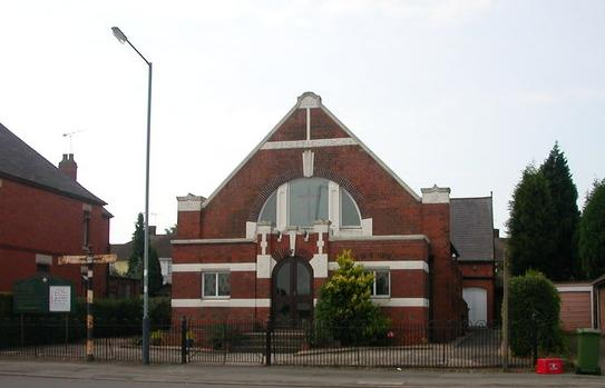 Ryton Methodist Church, Rugby Road, Bulkington, Warwickshire. Built in 1911. Note the rusty fingerpost on the left.